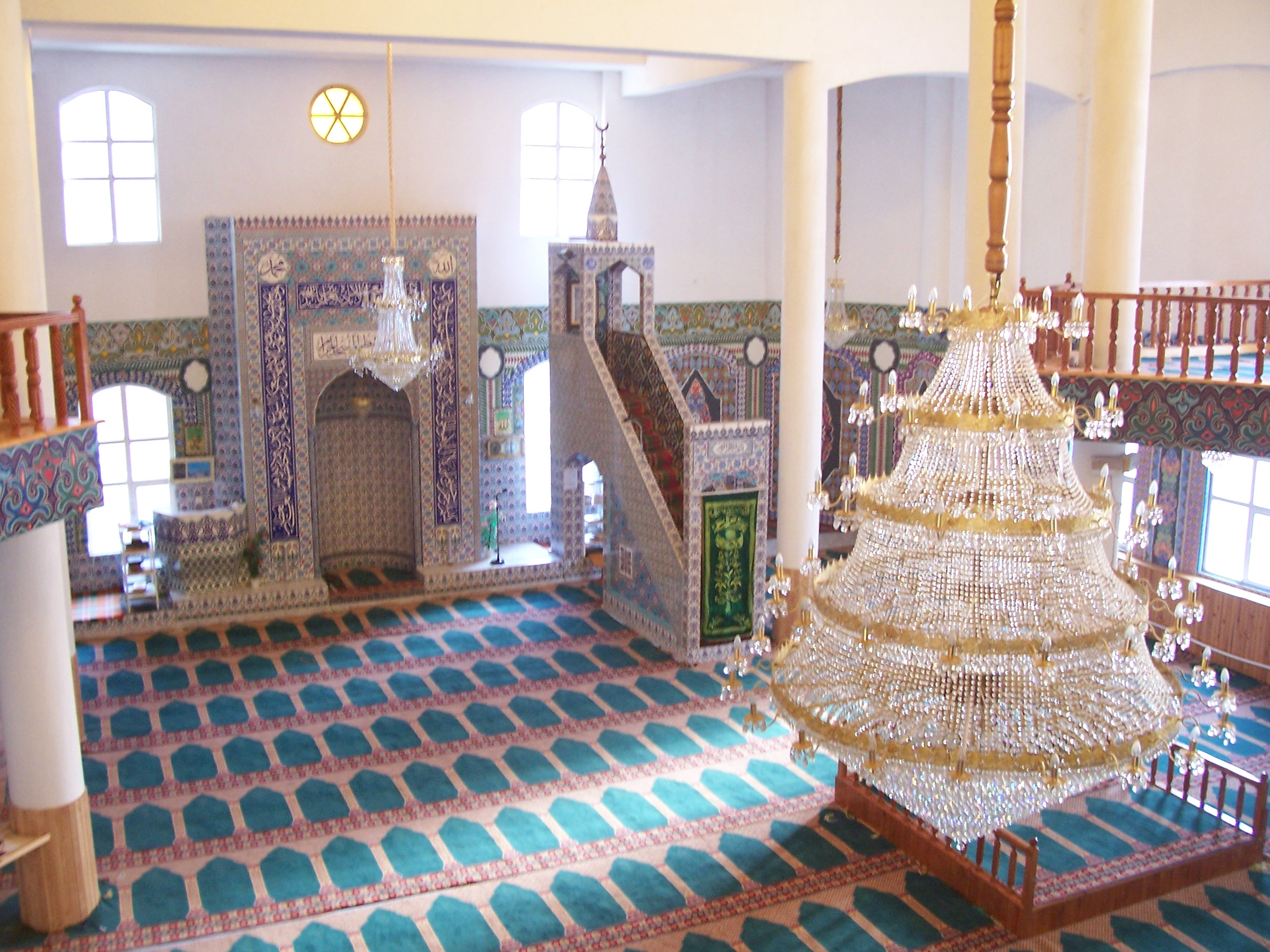 Interior of the mosque in Madan.